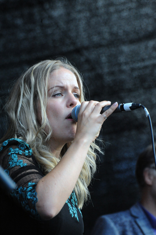 Sofia Karlsson at the 2013 Stockholm Folk Festival.